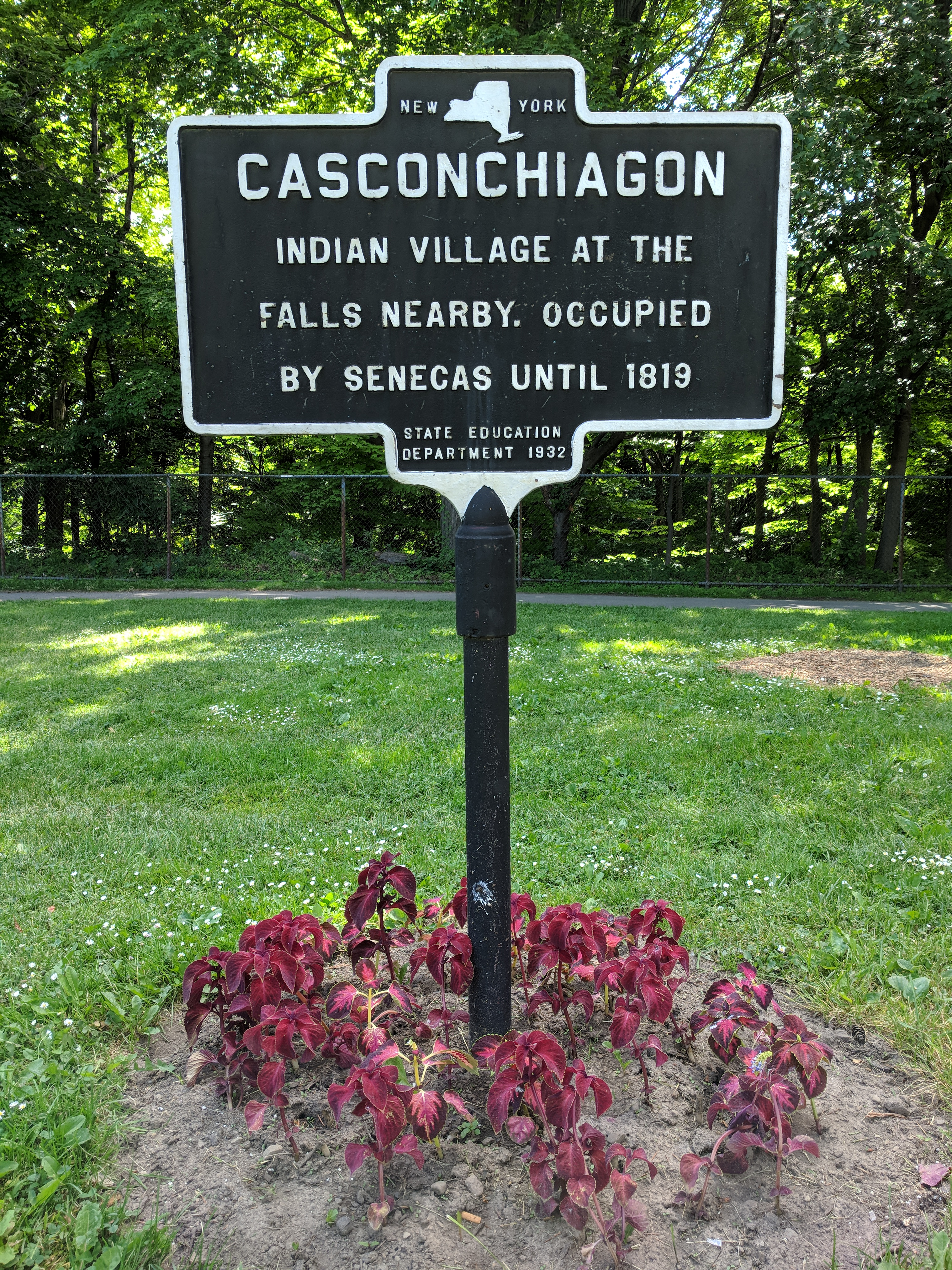 Historical marker for a settlement of the Seneca people along the Genesee River below Maplewood Park in present-day Rochester, New York